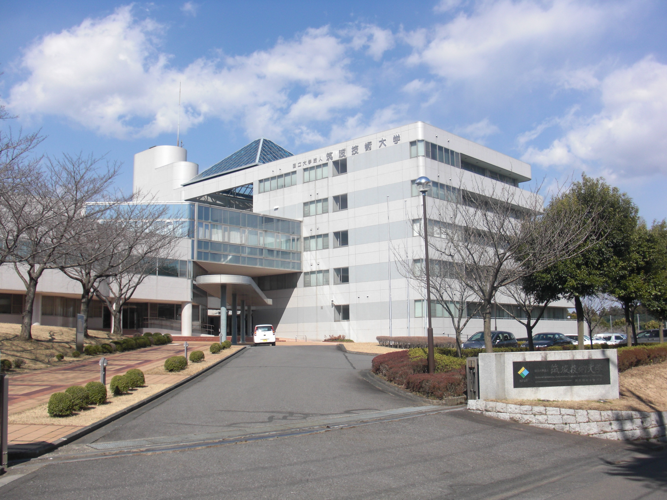 This is an university campus in Tsukuba.